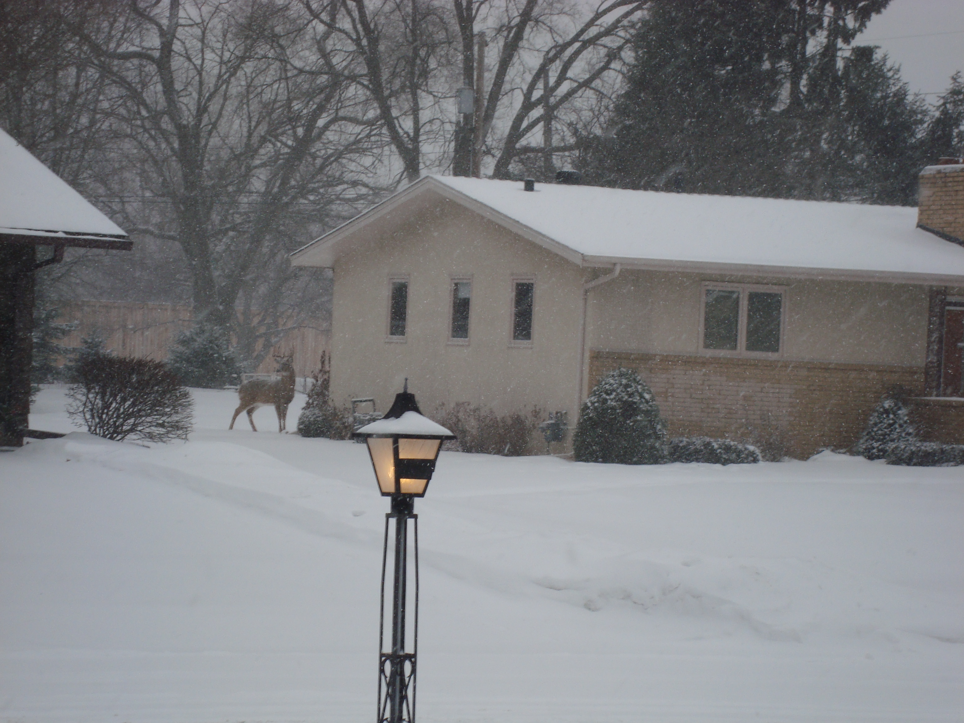 A neighborhood in Golden Valley, Minnesota in winter.